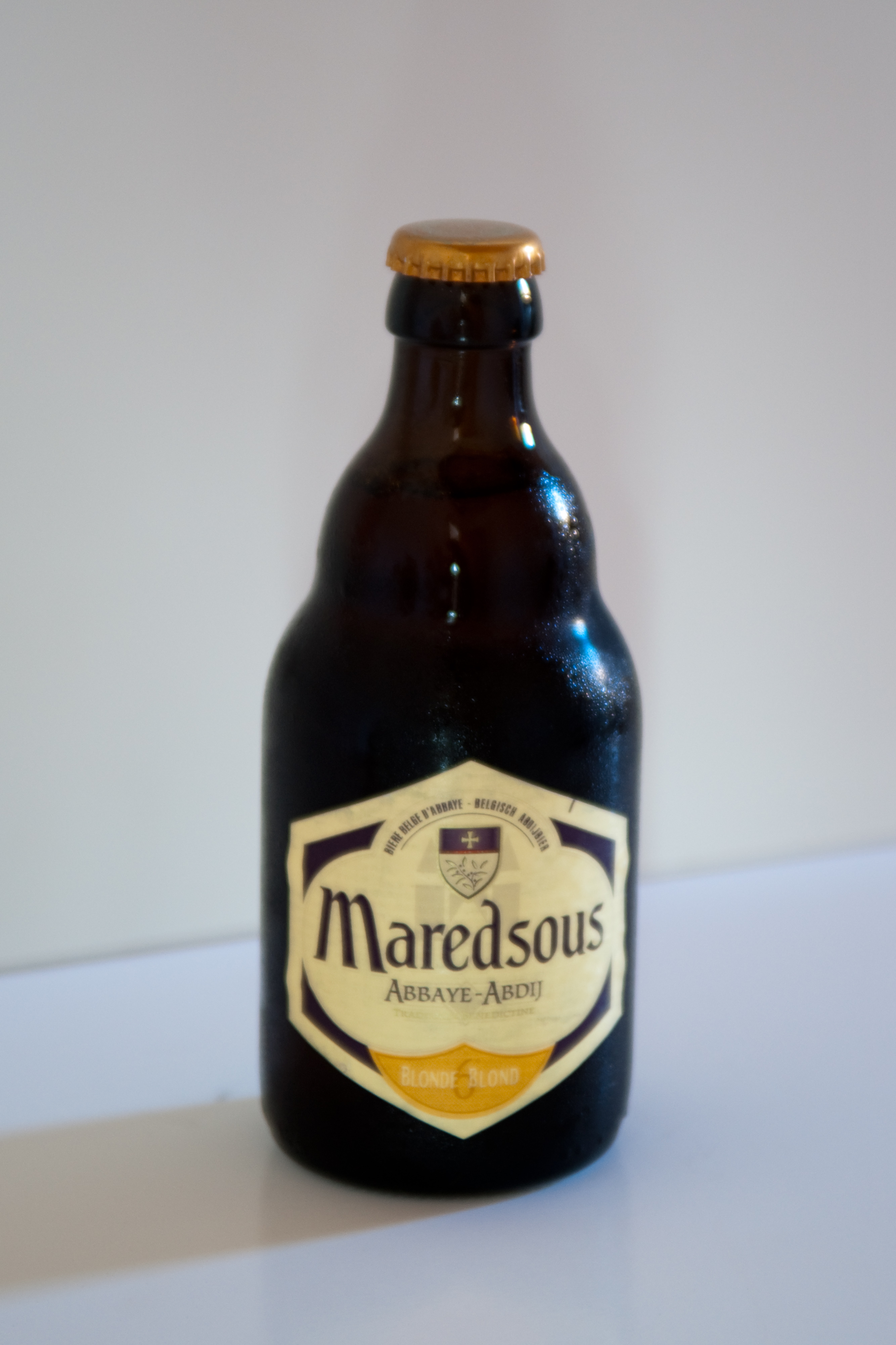 Belgian pale beer brewed in Puurs.